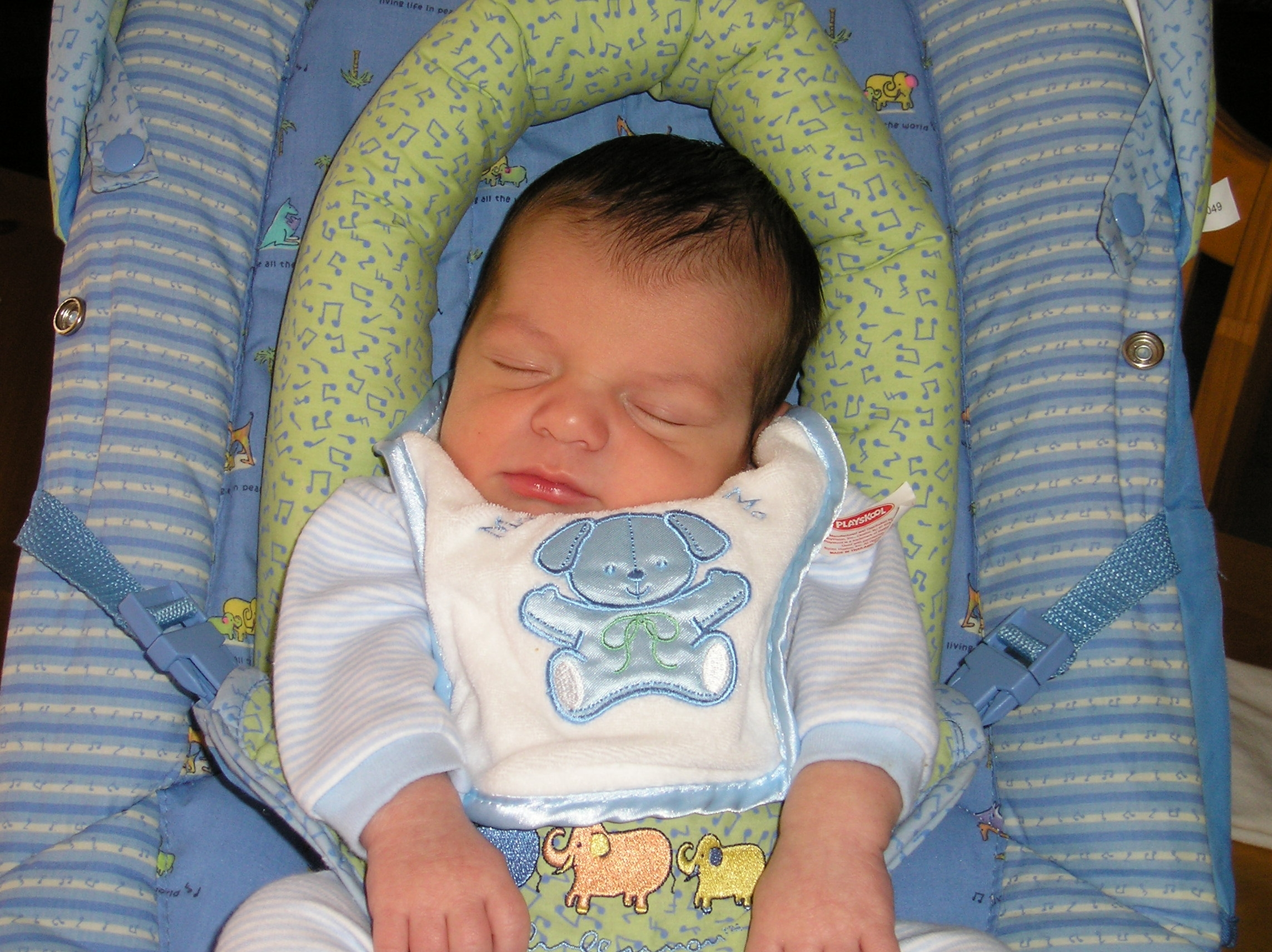 Picture of my son Lucas sleeping as a new born.